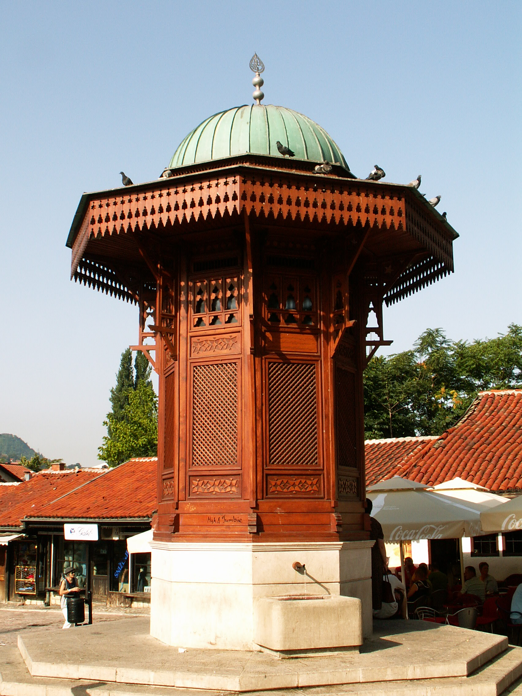 Sebilj